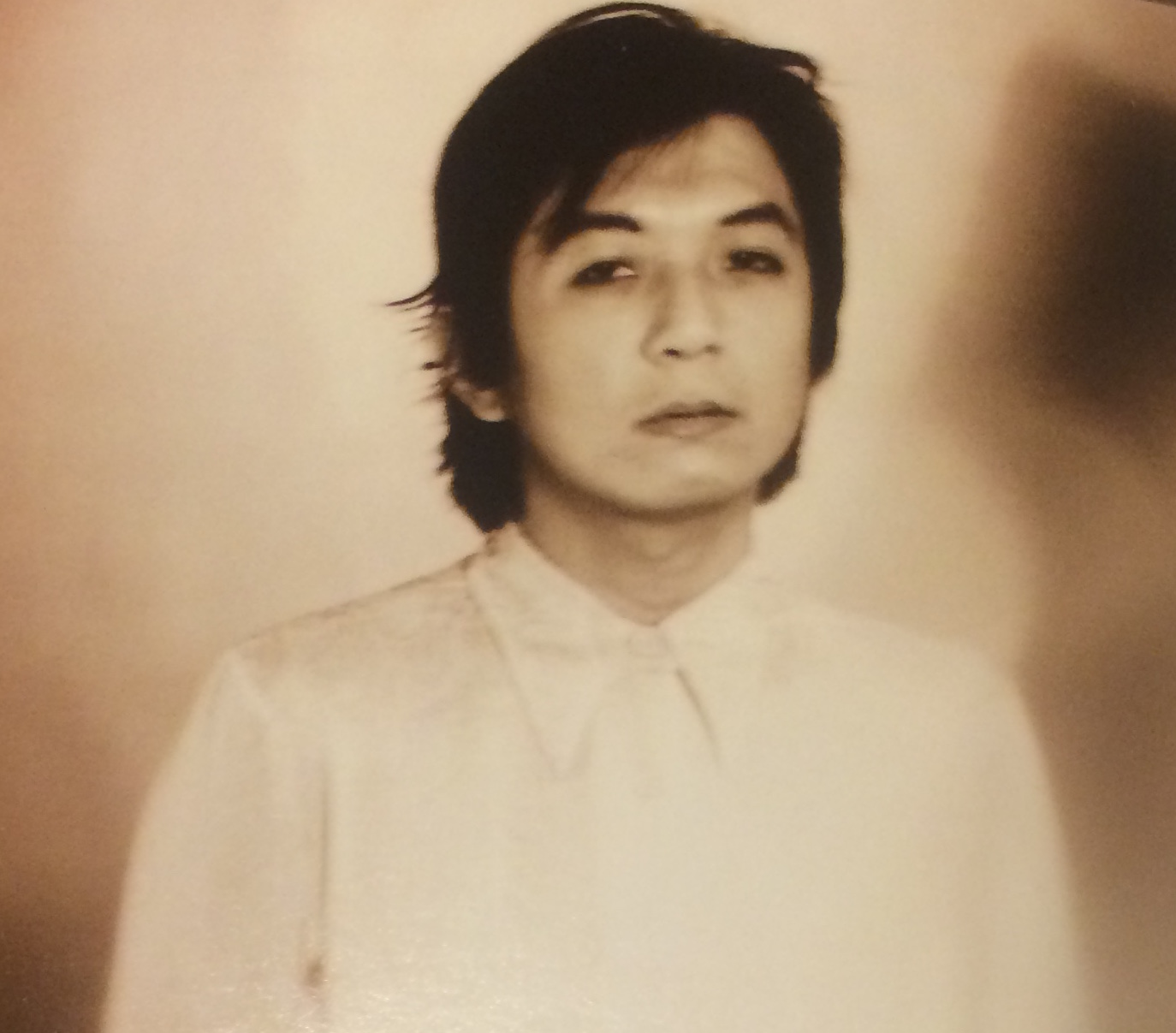 Portrait of Singapore author, poet and musician Damien Sin (1964-2011)